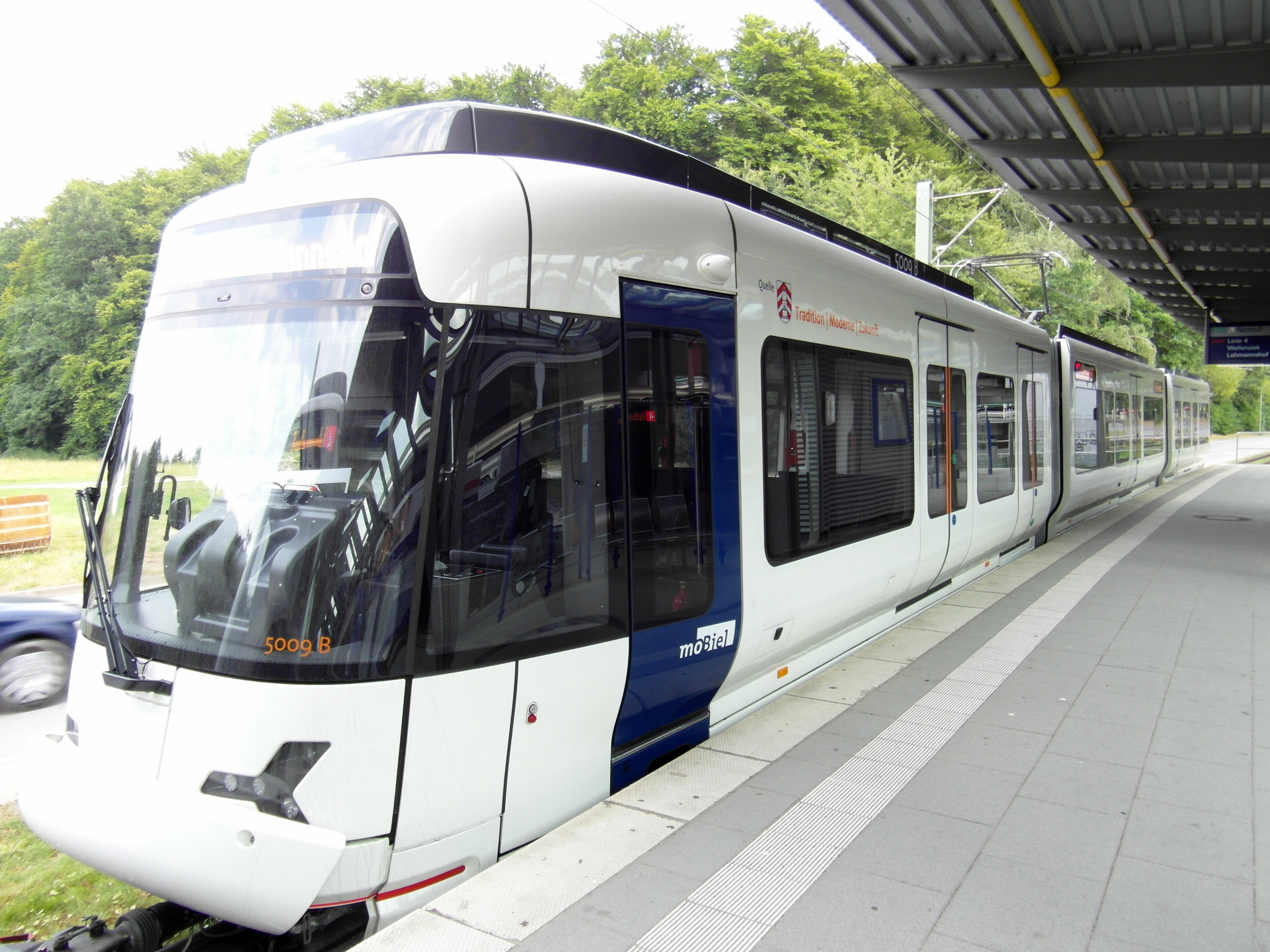 Details of a tram (type GTZ8-B) of Bielefeld's Stadtbahn, Bielefeld, Nordrhein-Westfahlen